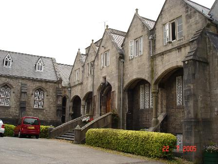 St Beuno's courtyard. Courtyard at the monastery.